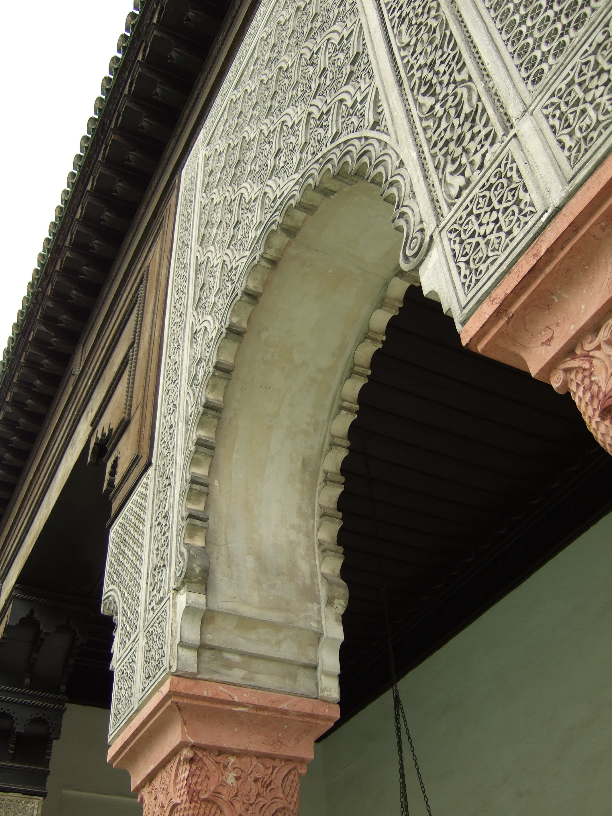 Paris Mosque, Plaster carvings and arches in first courtyard.